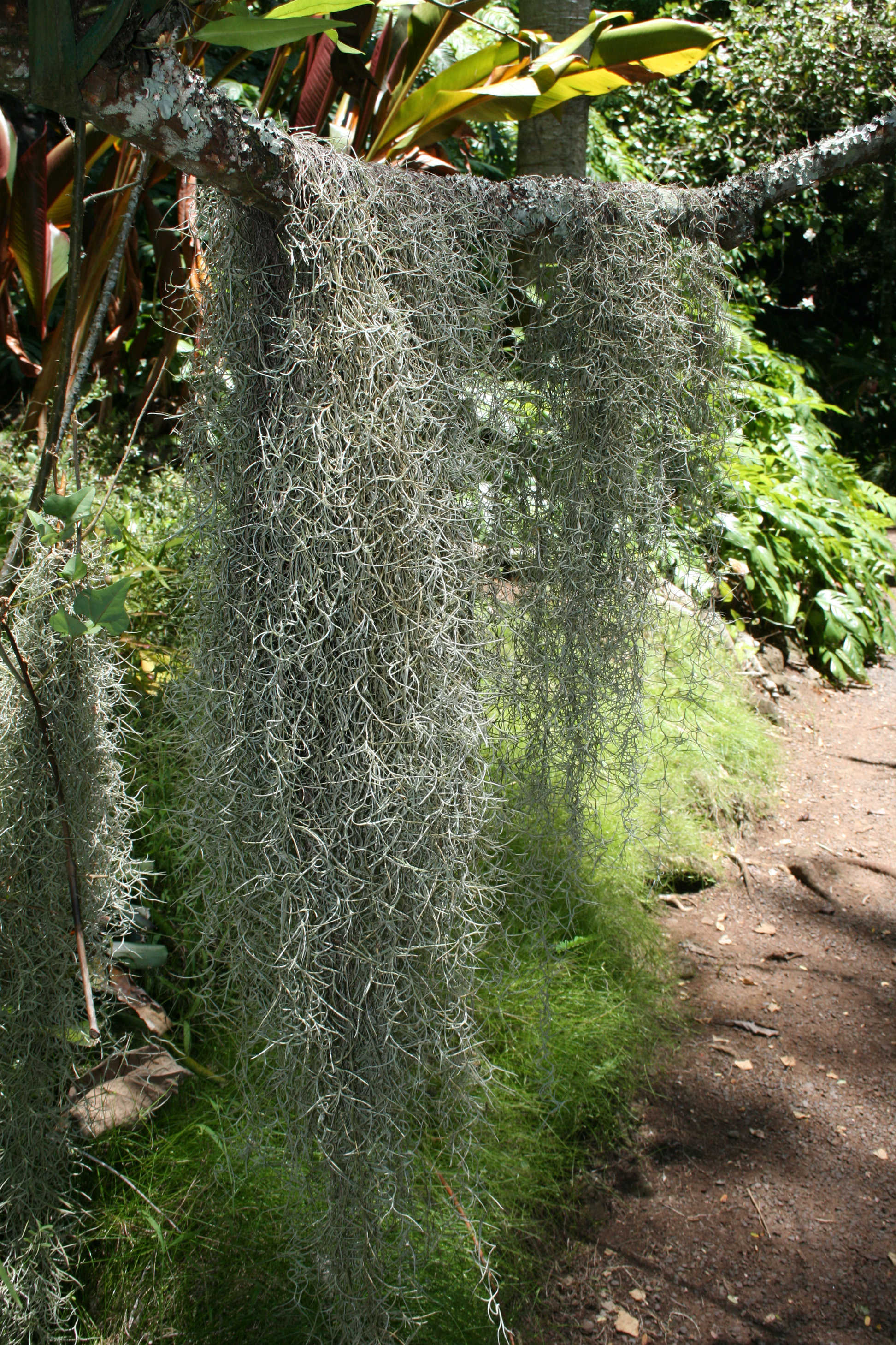 Photographer: myself, Gh5046 A picture of Spanish moss taken 2007/08/29 at the McBryde Garden in Hawaii on the island of Kaua'i. The photo is in its original state.